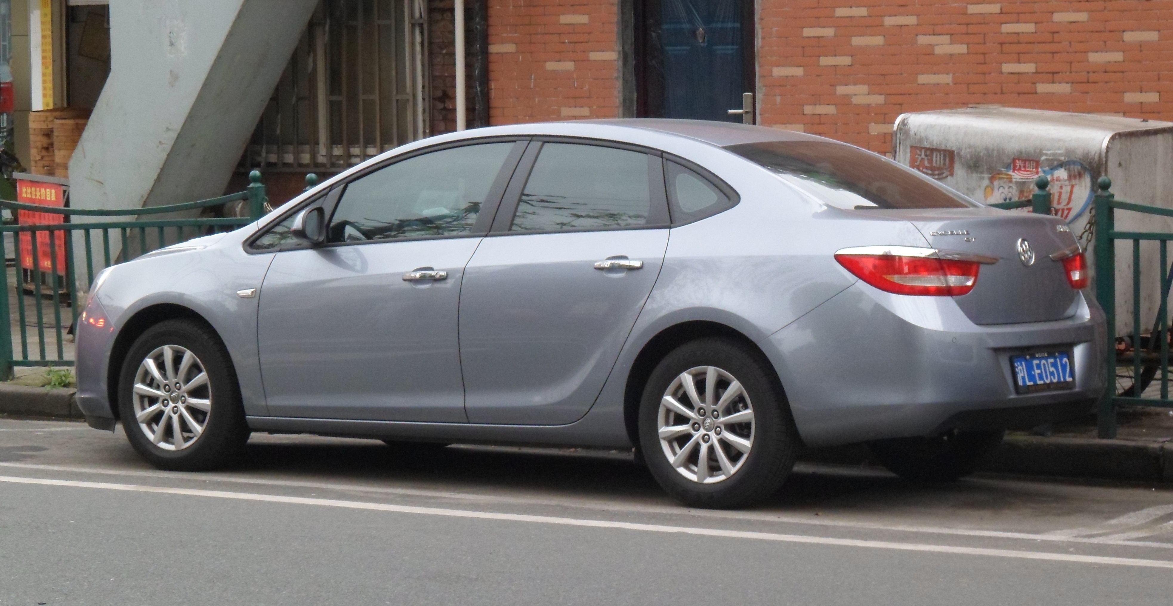 Buick Excelle GT photographed in Shanghai, China.